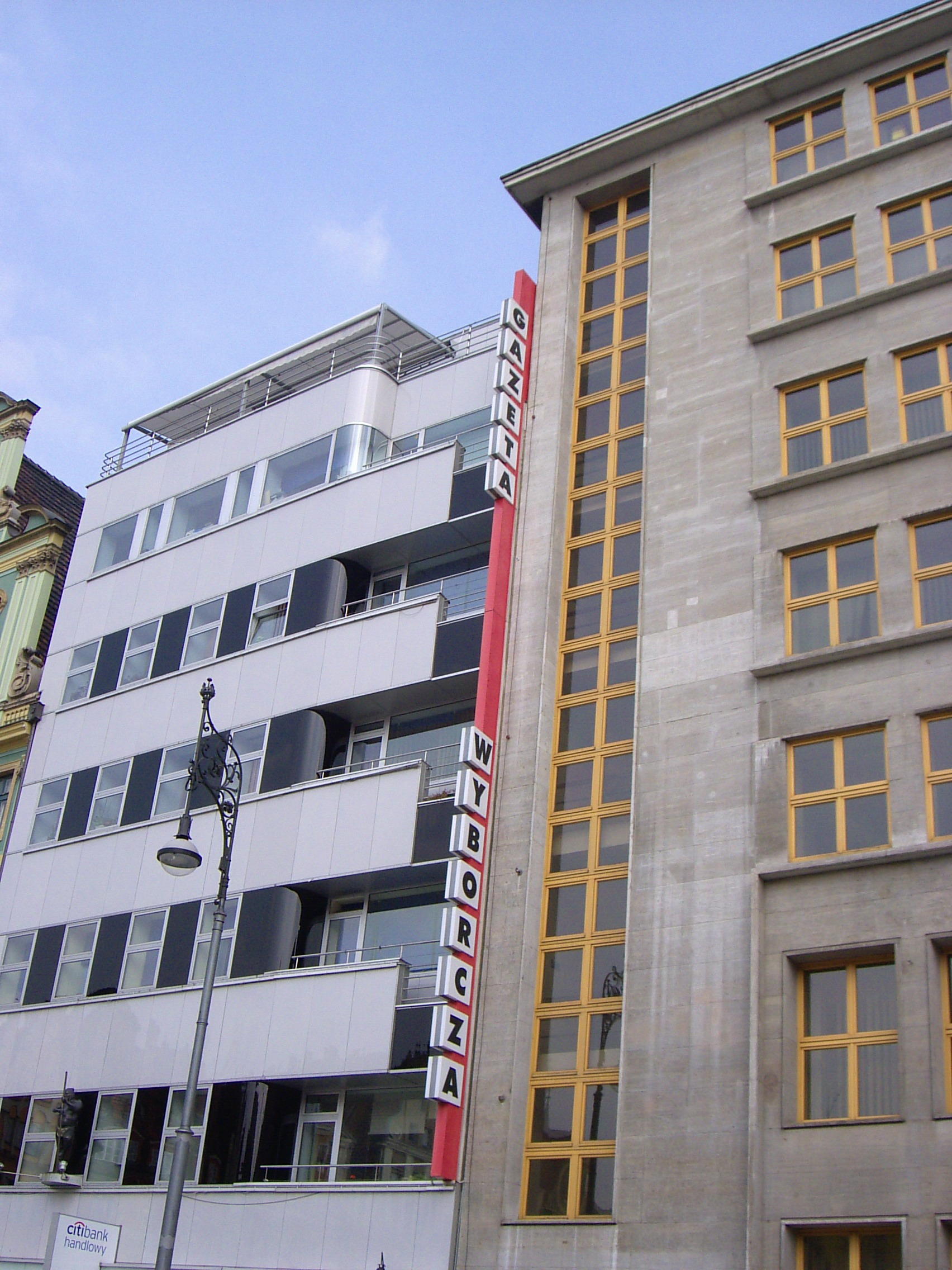 Local newspaper office of Gazeta Wyborcza in Wrocław